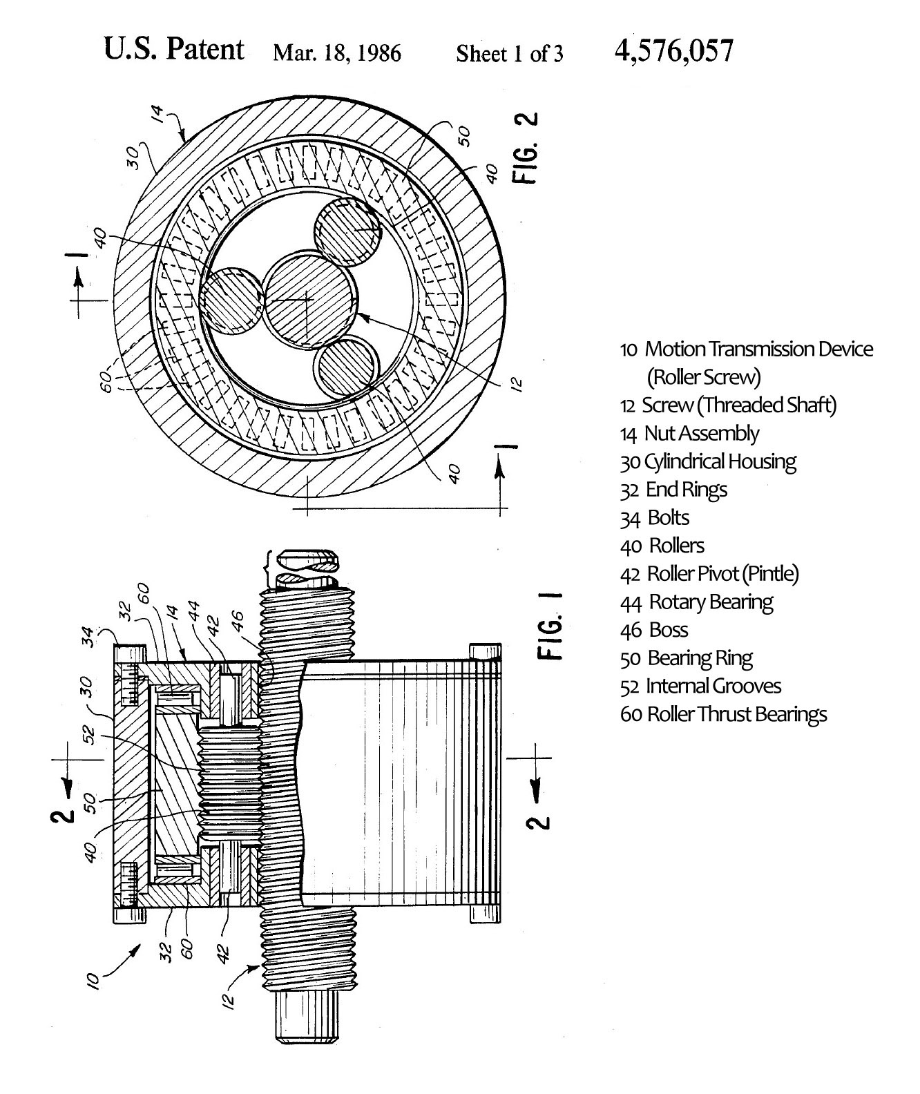 Patent Drawing for Spiracon Roller Screw, U.S. Patent 4,576,057 (1986), with content shifted and legend added.